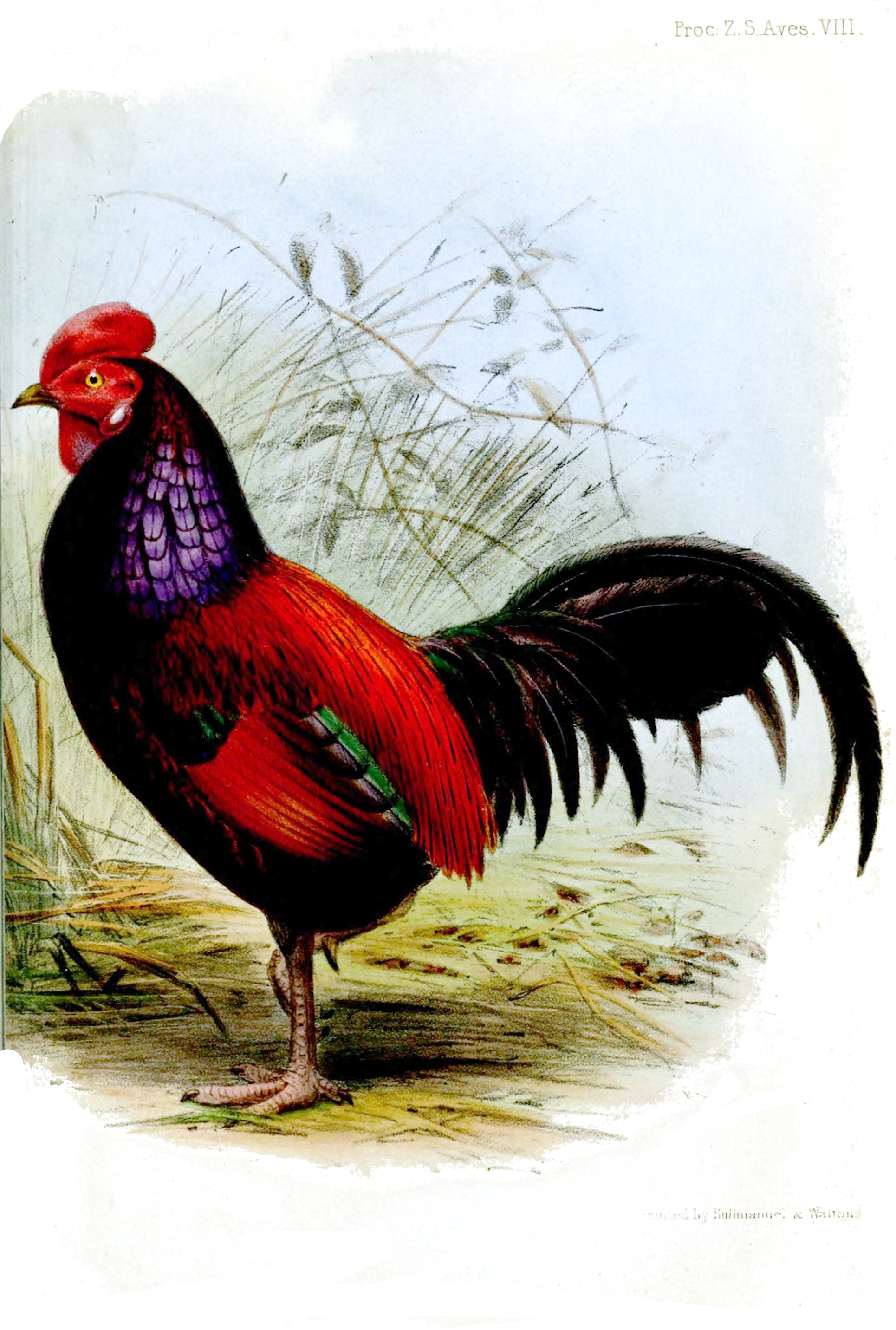 Ayam Bekisar (æneus-type), adult male